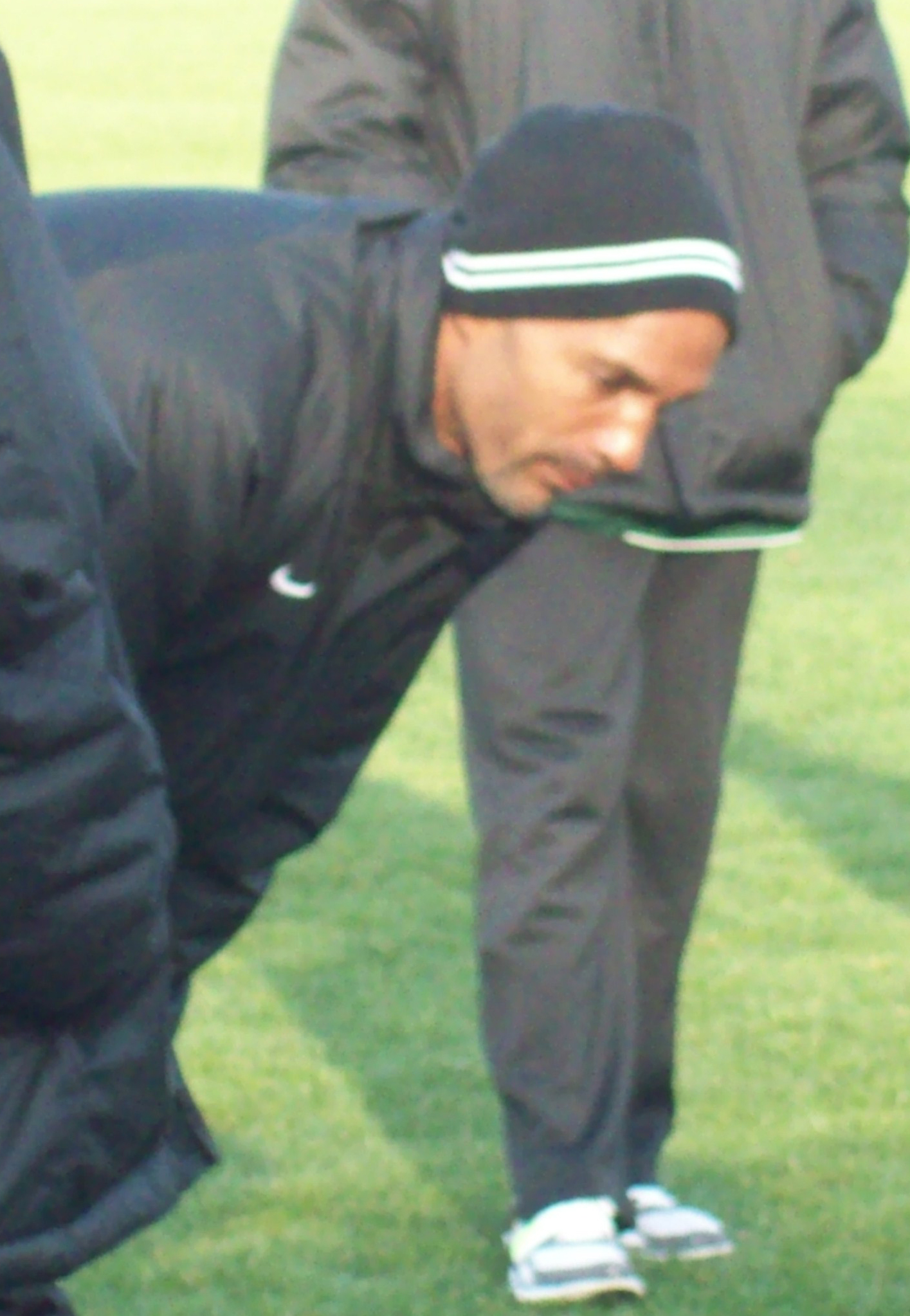 Coach Claude Anelka in St. Louis